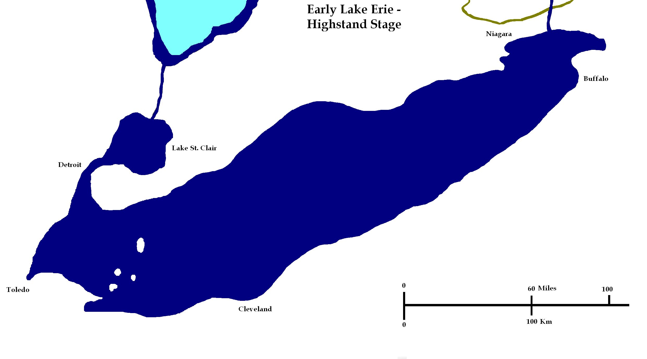 Highstand stage of Early Lake Erie, based on Research overview: Holocene development of Lake Erie; Charles E. Herdendorf, 2013